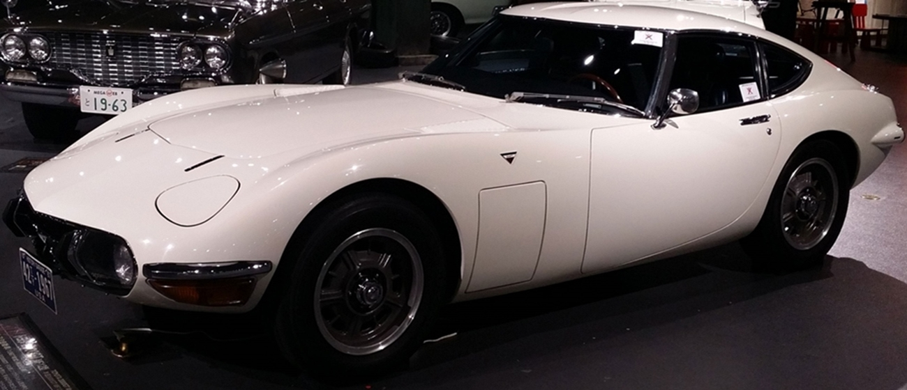 Toyota 2000GT